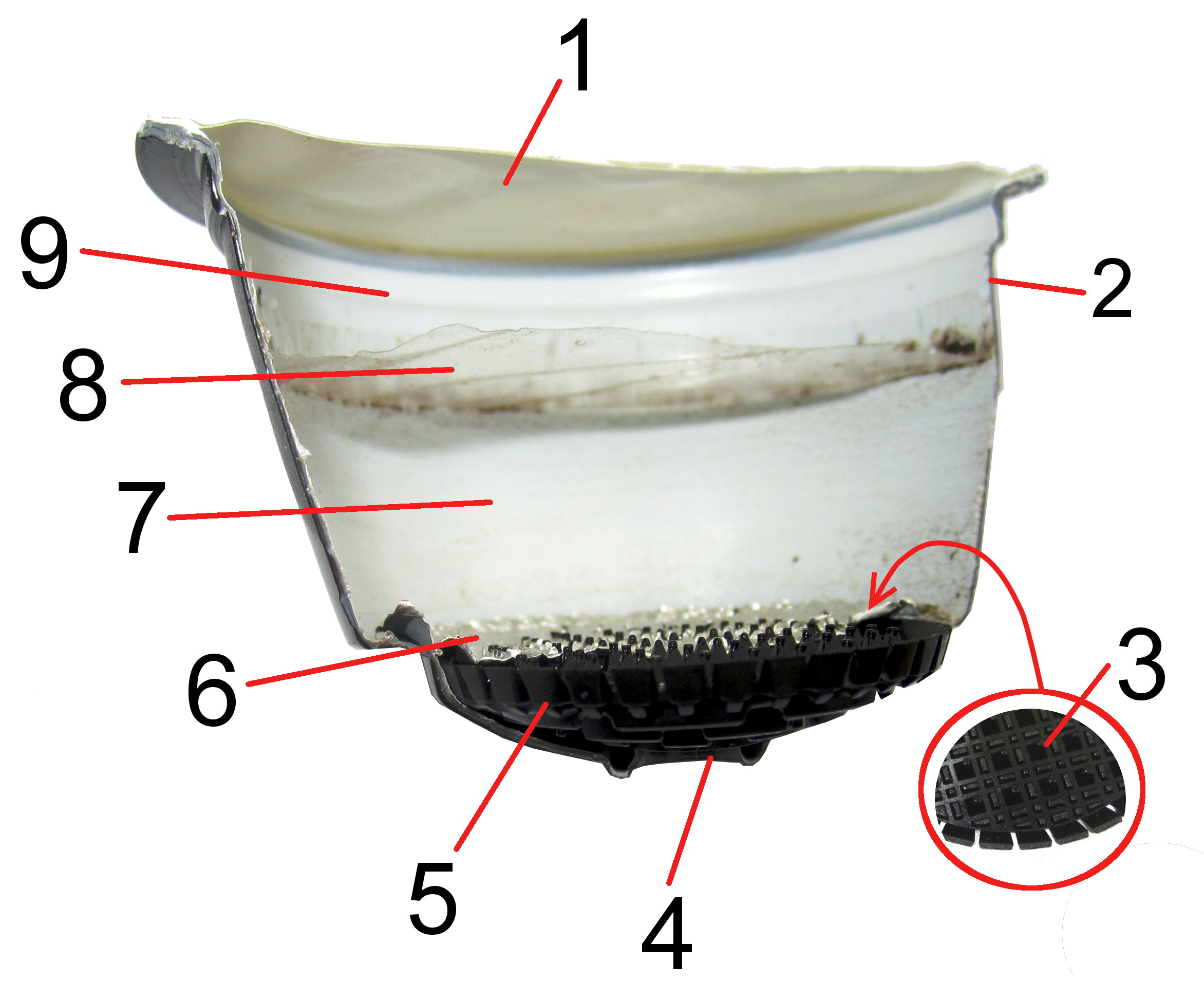 The inside of an emptied used Dolce Gusto coffee capsule. 1) Top film lid 2) Hull of capsule 3) Thorn 4) Drain 5) Filter floor 6) Floor made of Aluminium foil 7) Chamber for beverage powder (grinded coffe/ milk powder) 8) Plasitc separator fil 9) Compensation chamber